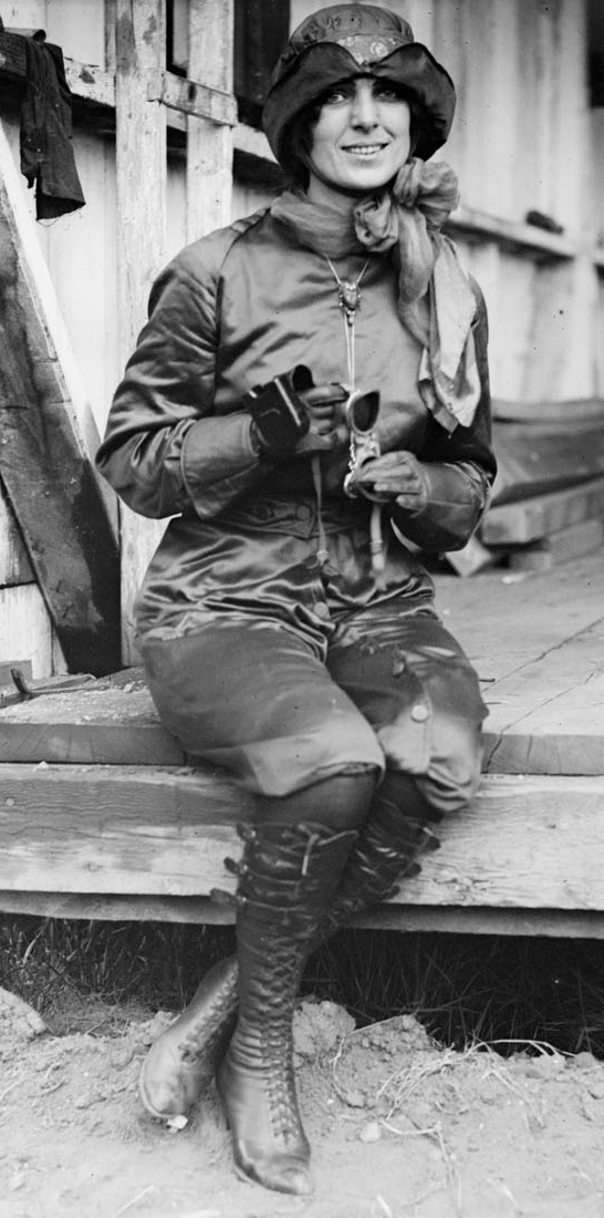 Miss Harriet Quimby, Boston girl aviator who lost her life trying to entertain the public at Squantum